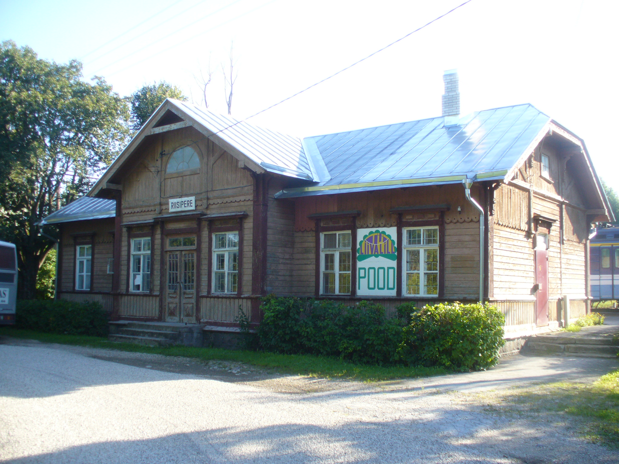 Riisipere railway station. View from southwest. Nissi parish, Harju county, Estonia.